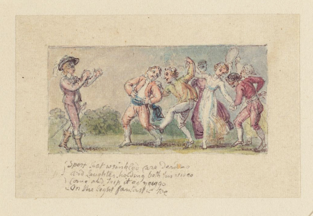 One of 16 illustrations by Thomas Stothard (1755-1834), for John Milton's L'Allegro. Ink and watercolor. MS Typ 603, Houghton Library, Harvard University